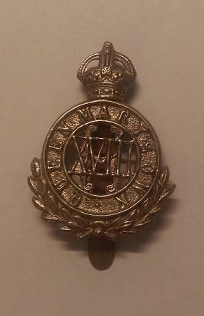 Photo of 18th Royal Hussars Cap Badge from personal collection